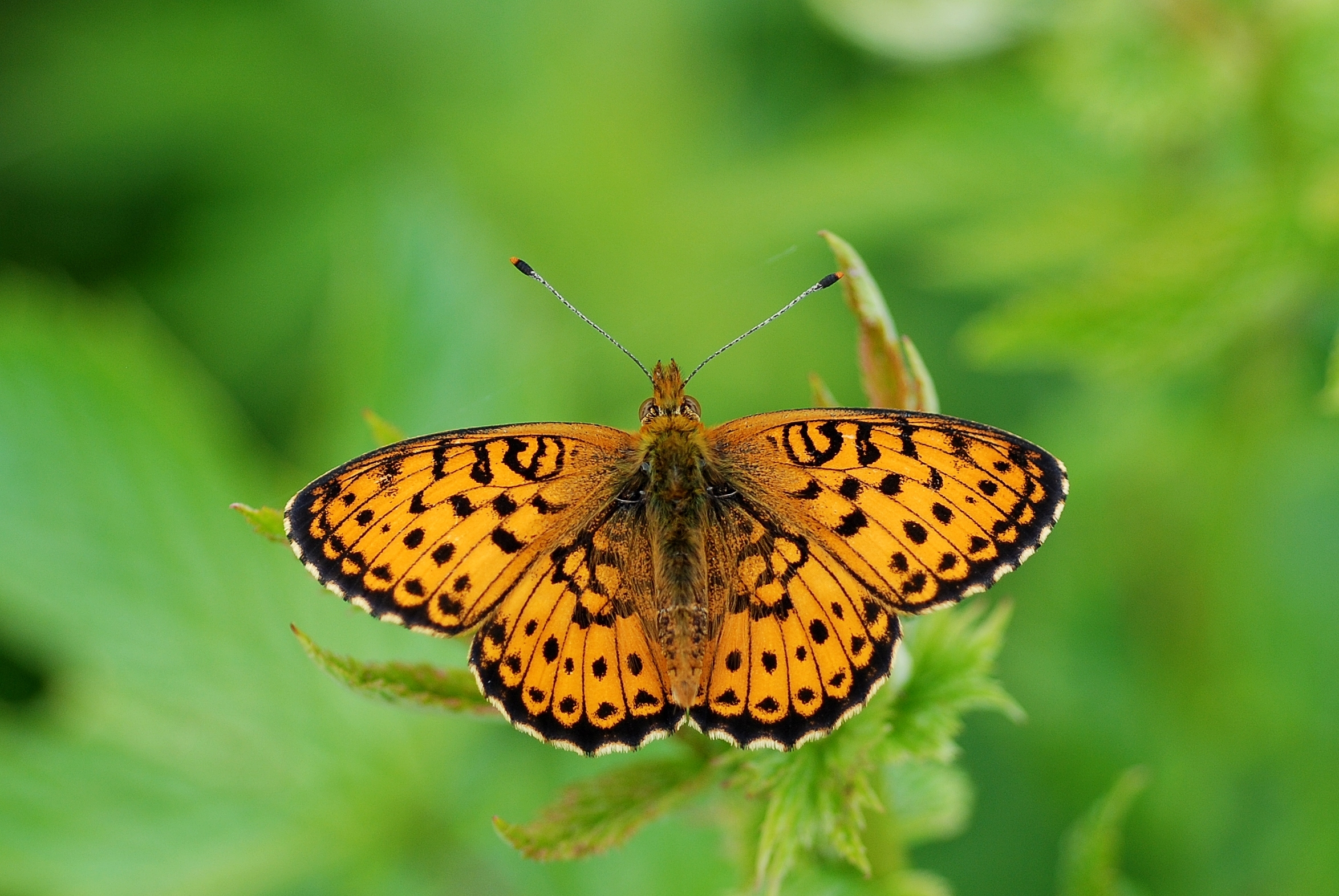 Lesser Marbled Fritillary (Brenthis ino)